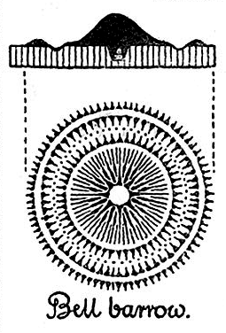 Bell barrow plan and section, cropped from a Heywood Sumner illustration in Frank Stevens' "Stonehenge Today and Yesterday"